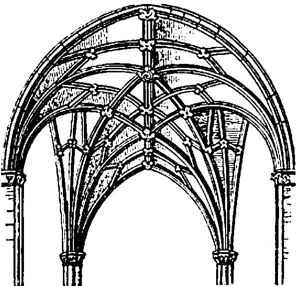 A net vault, drawing out of the Brockhaus-Lexikon of 1888, PD